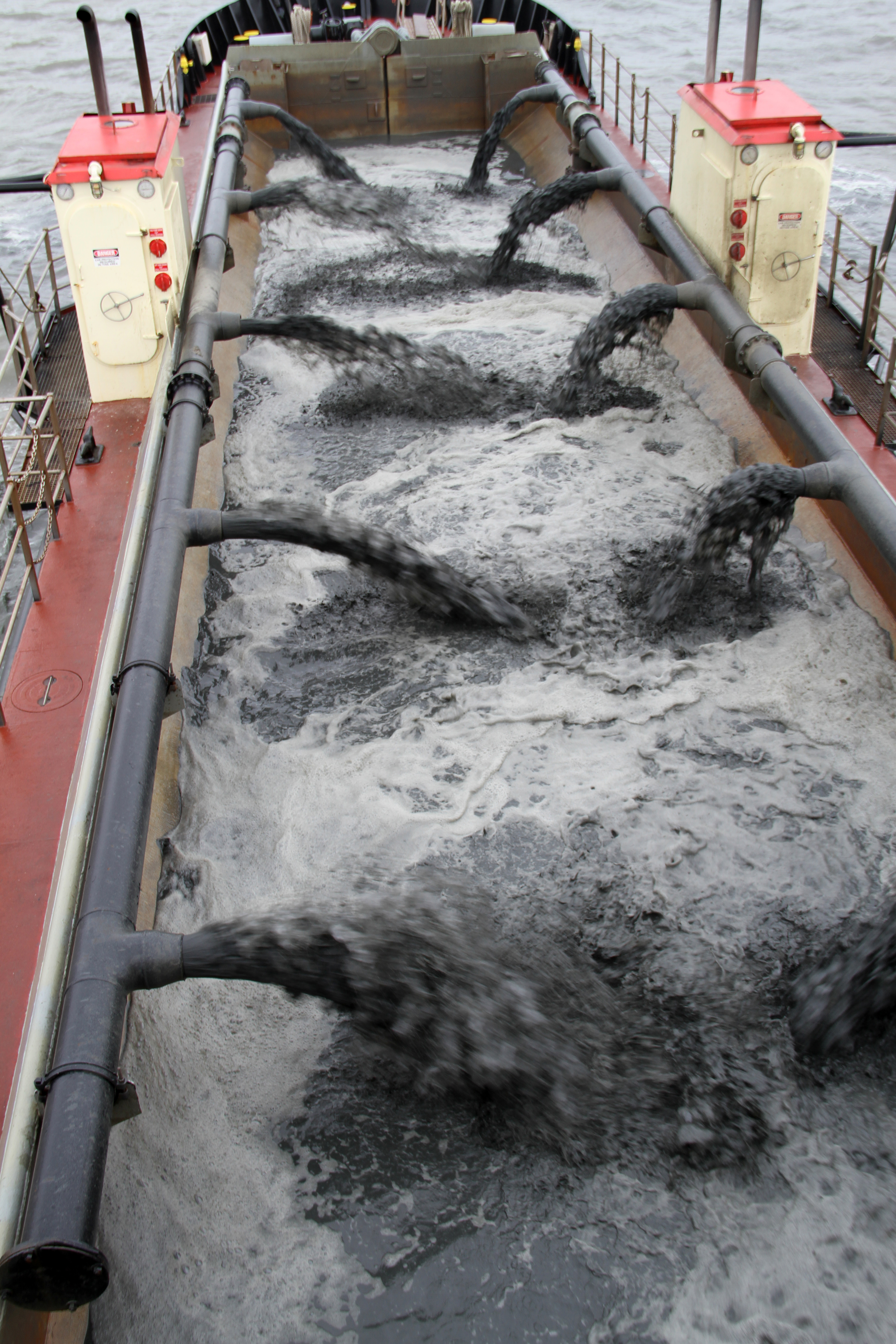 SUFFOLK, Va. -- Pumps from the Army Corps of Engineers’ hopper dredge Currituck, based in Wilmington, N.C., filters sand from Bennett's Creek to increase the depth from 2 to 6 feet April 23, 2013. The Currituck will place approximately 4,000 cubic yards of sand - equivalent to 450 dump trucks loads –at the Craney Island Dredged Material Management Area in Portsmouth, Va. The shallow-draft dredging of the federal navigation channel here began April 20. (U.S. Army photo/Pamela Spaugy)